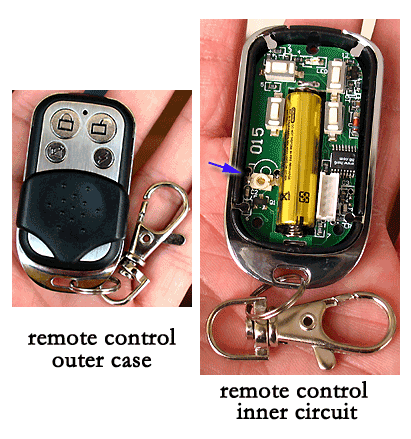 A remote control for an automatic garage door opener - showing the outer case and inner circuit.